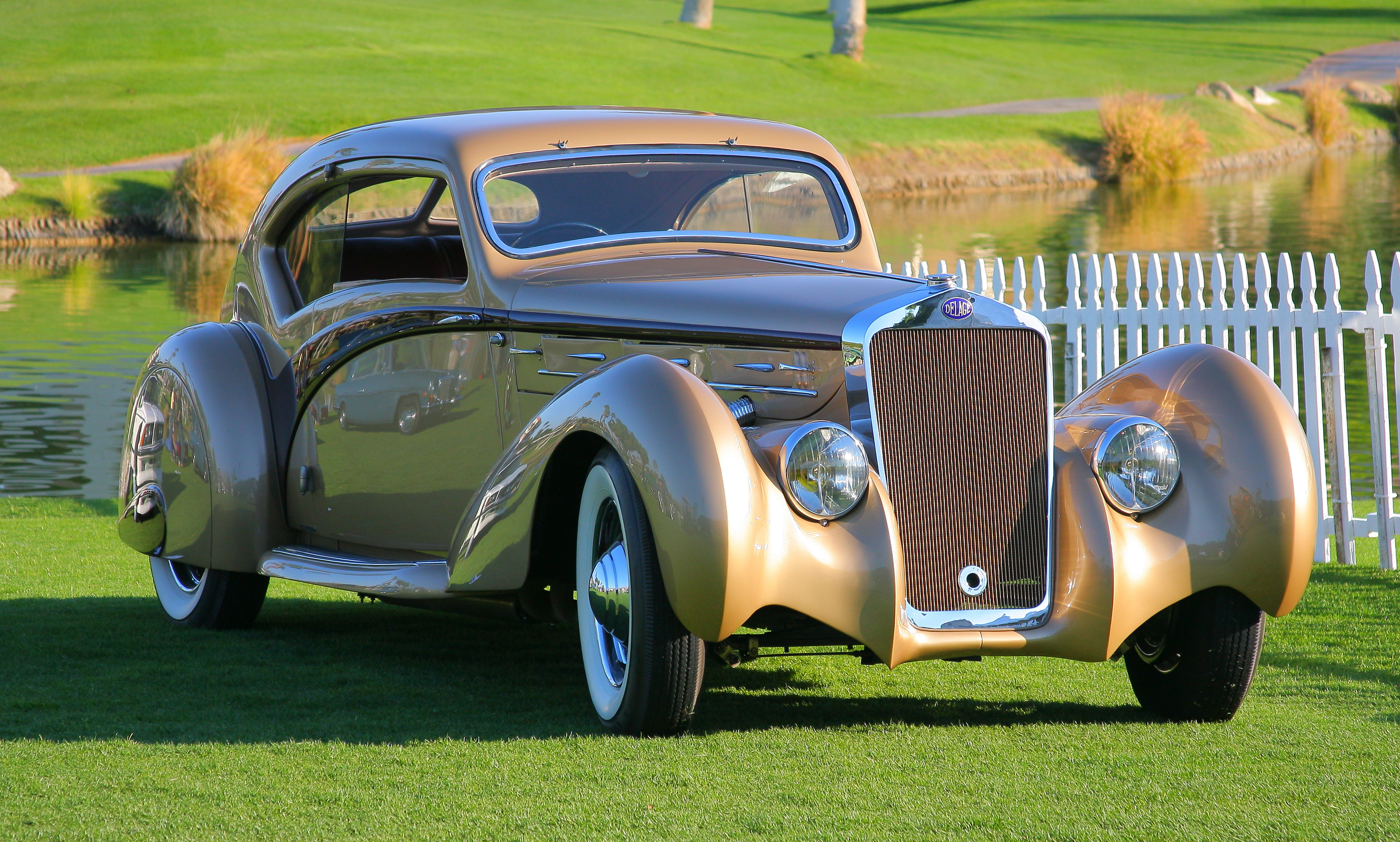 1937 Delage D-8 Coupe Aerosport by Letourneur et Marchand Desert Classic Concours d'Elegance 23 February 2014